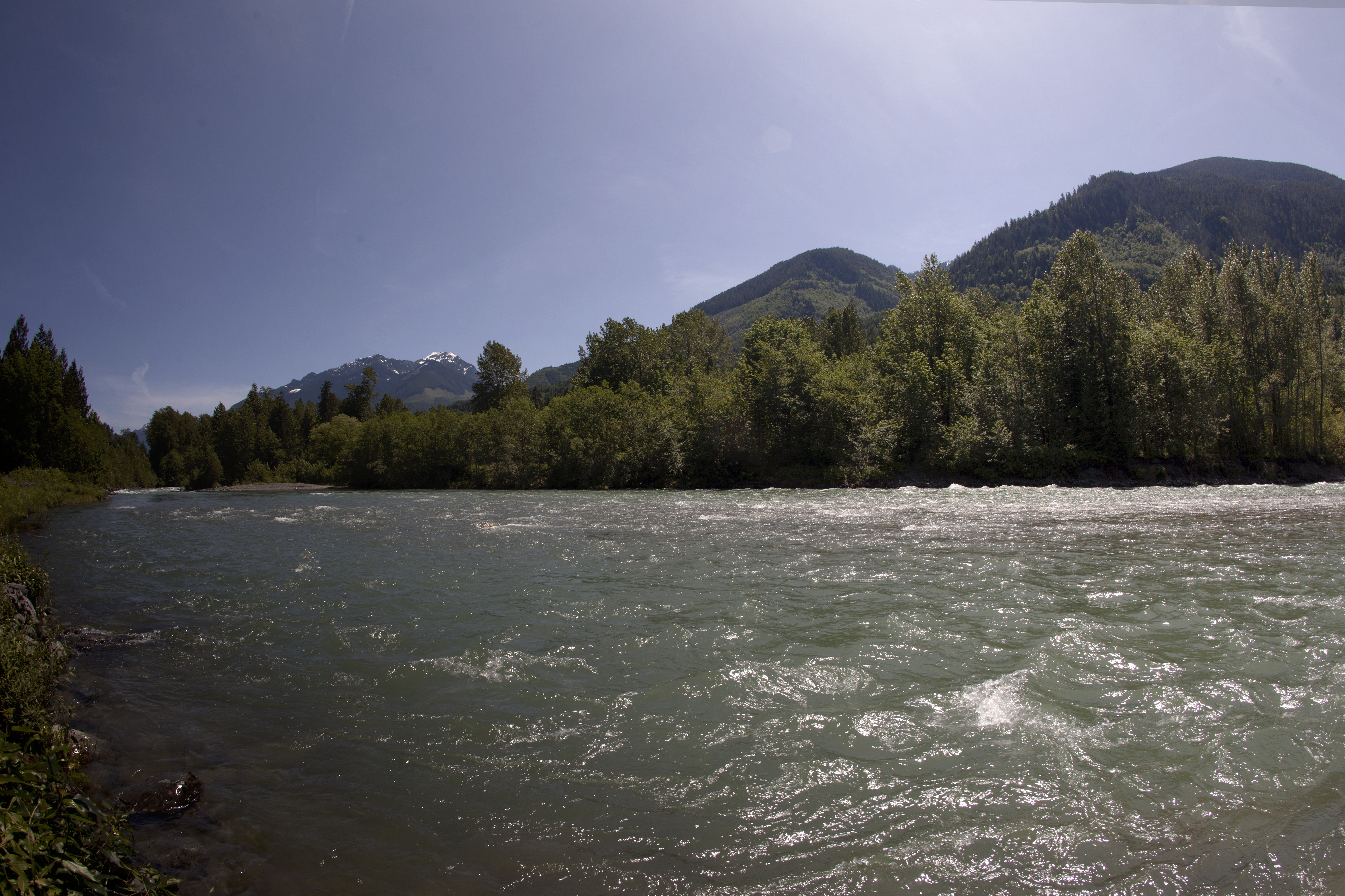 Chilliwack River Provincial Park. British Columbia, Canada. Latitude: 49.078273, Longitude: -121.877804 Altitude: 85m This photo was taken in a protected area in Canada, Wikidata item Chilliwack River Provincial Park (Q5099102)